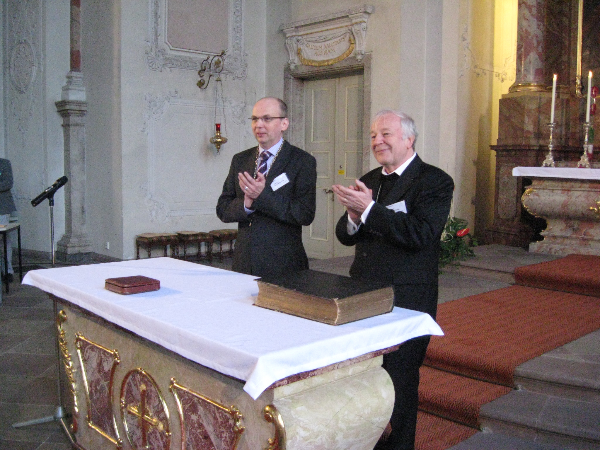 From left: Matthias Ring and Joachim Vobbe, at the election of Ring to the position of Diocesan Bishop of the Old Catholic Diocese in Germany and successor to Bishop Joachim Vobbe.